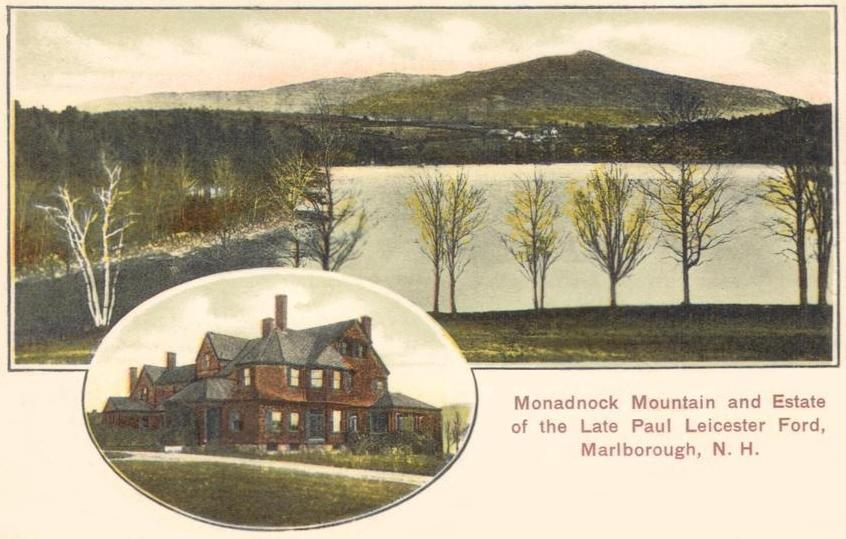 Mount Monadnock and Merrywood, estate of Paul Leicester Ford (1865-1902) on Stone Pond in Marlborough, New Hampshire